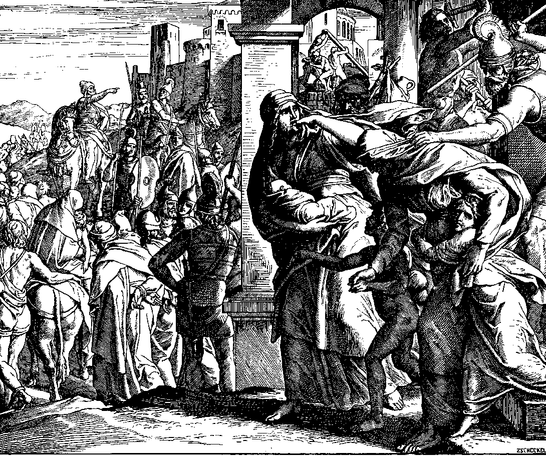 Woodcut for "Die Bibel in Bildern", 1860.